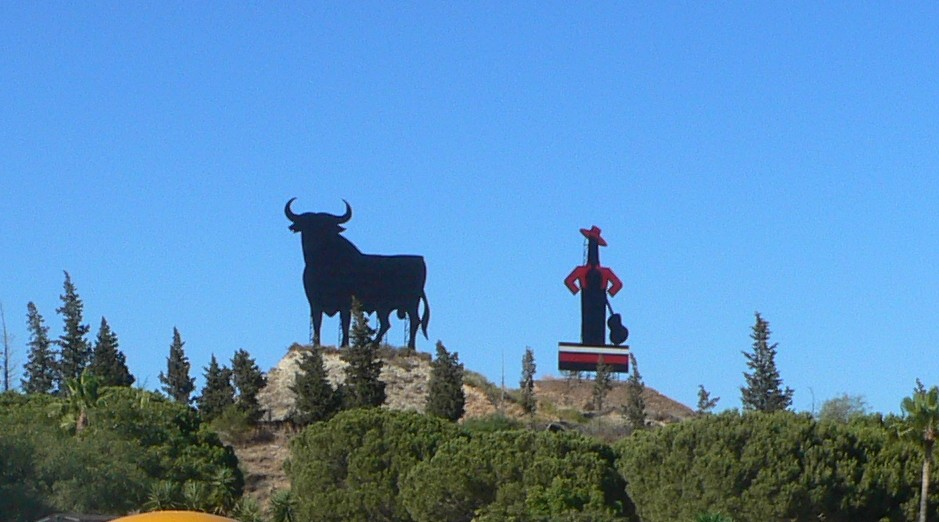 Sierra San Cristóbal, Andalusia, Spain.